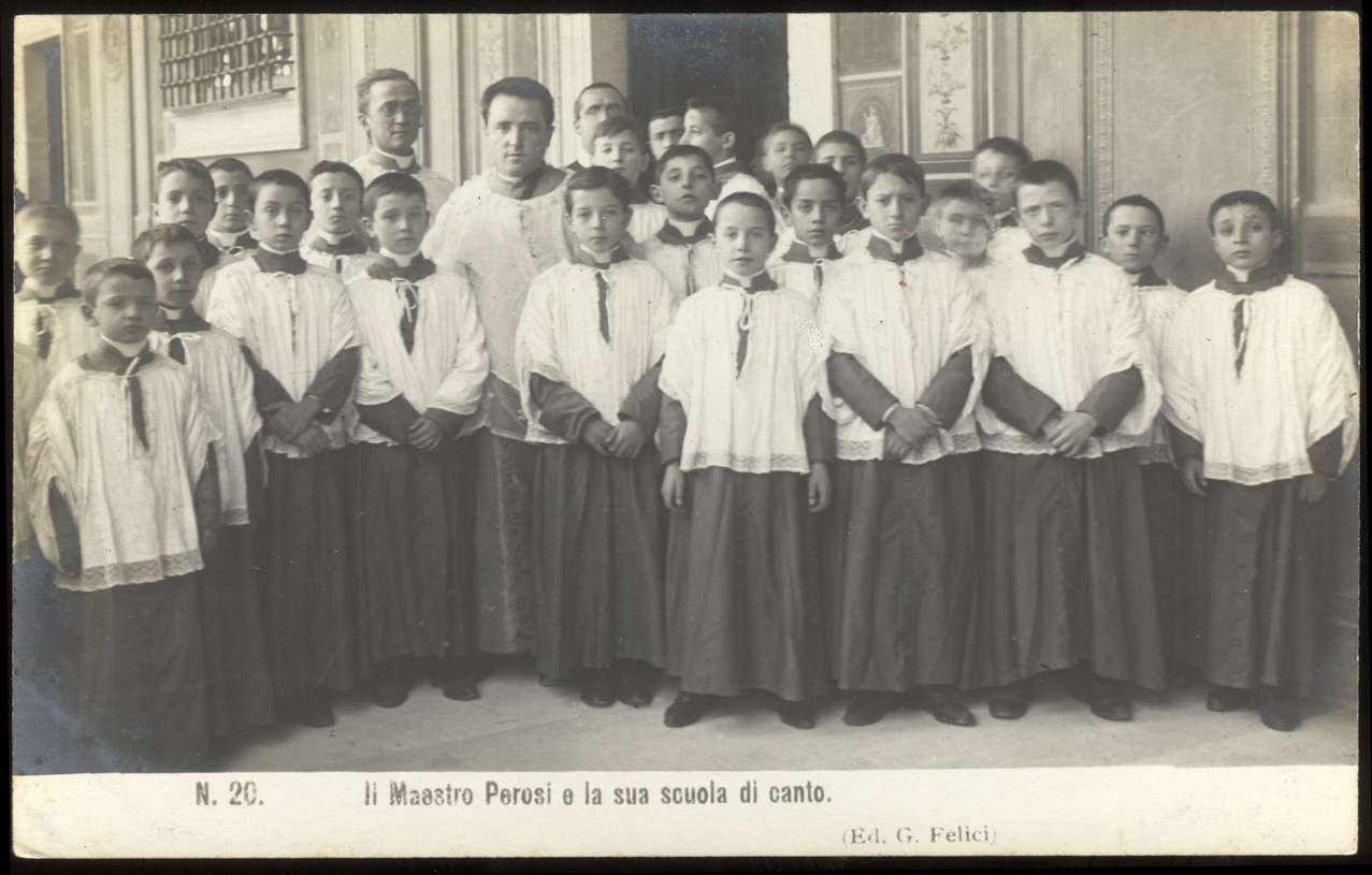 Photo-postcard c. 1905.